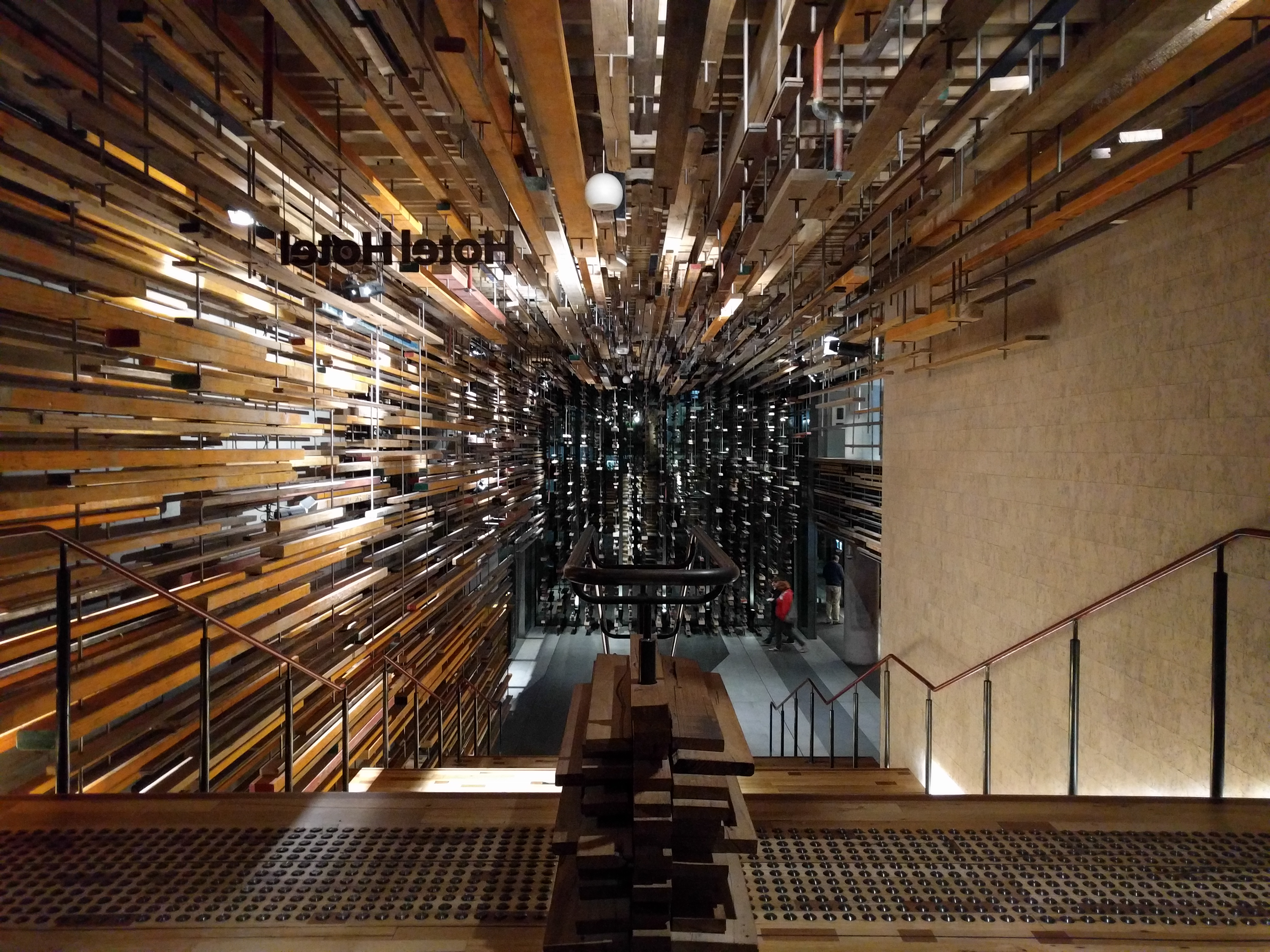 The foyer of Hotel Hotel in Canberra